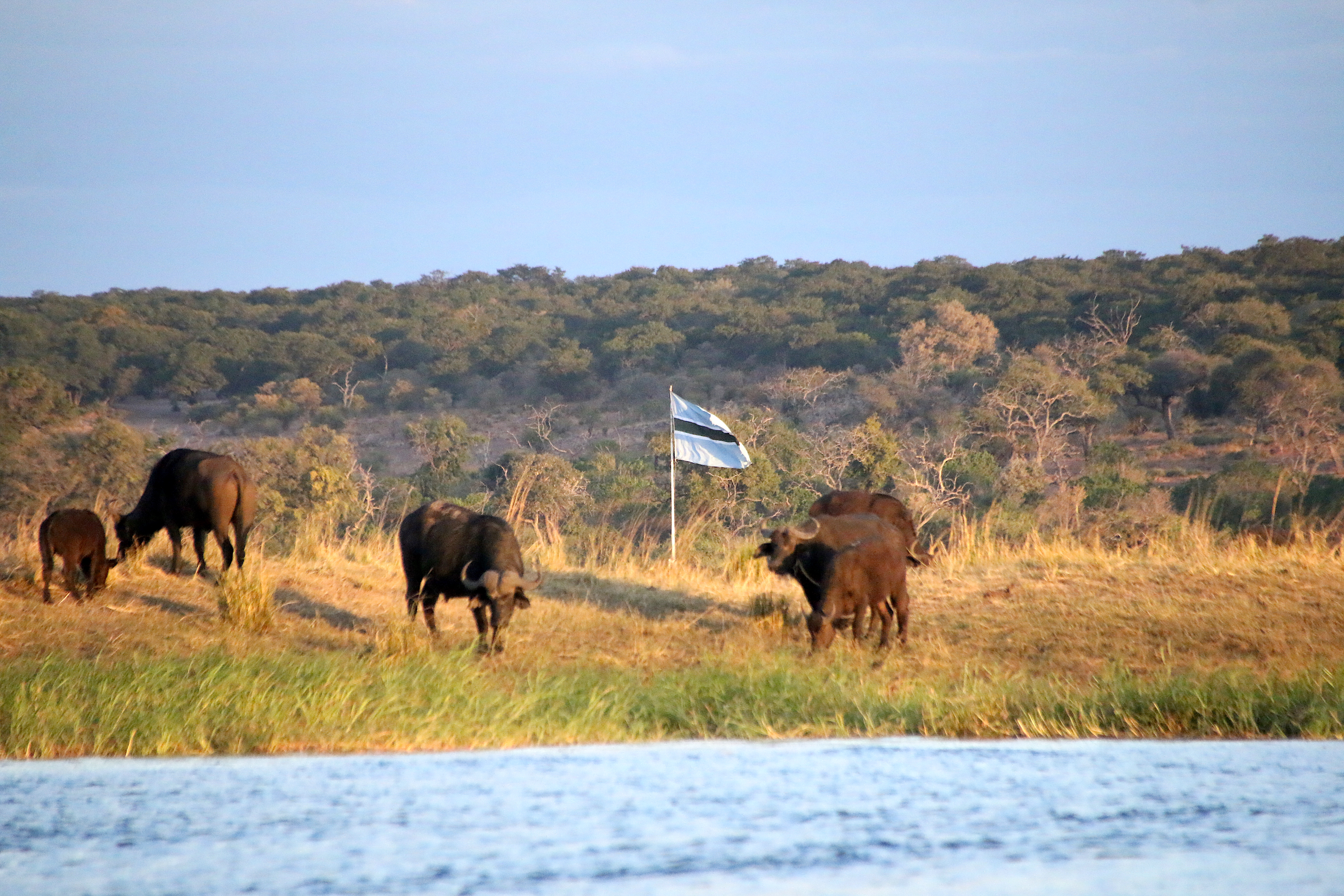 Sedudu Island (2018)